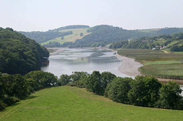 River Tamar Looking southwest along a stretch of the Tamar Valley. Everything beyond the end of the reed beds on the right is beyond the edge of this grid square.